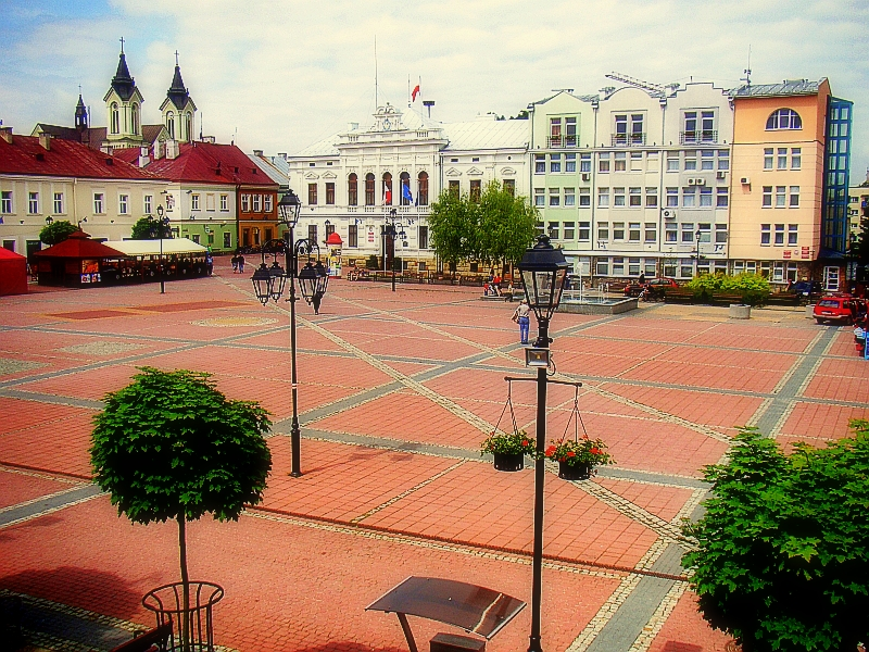 Sanok